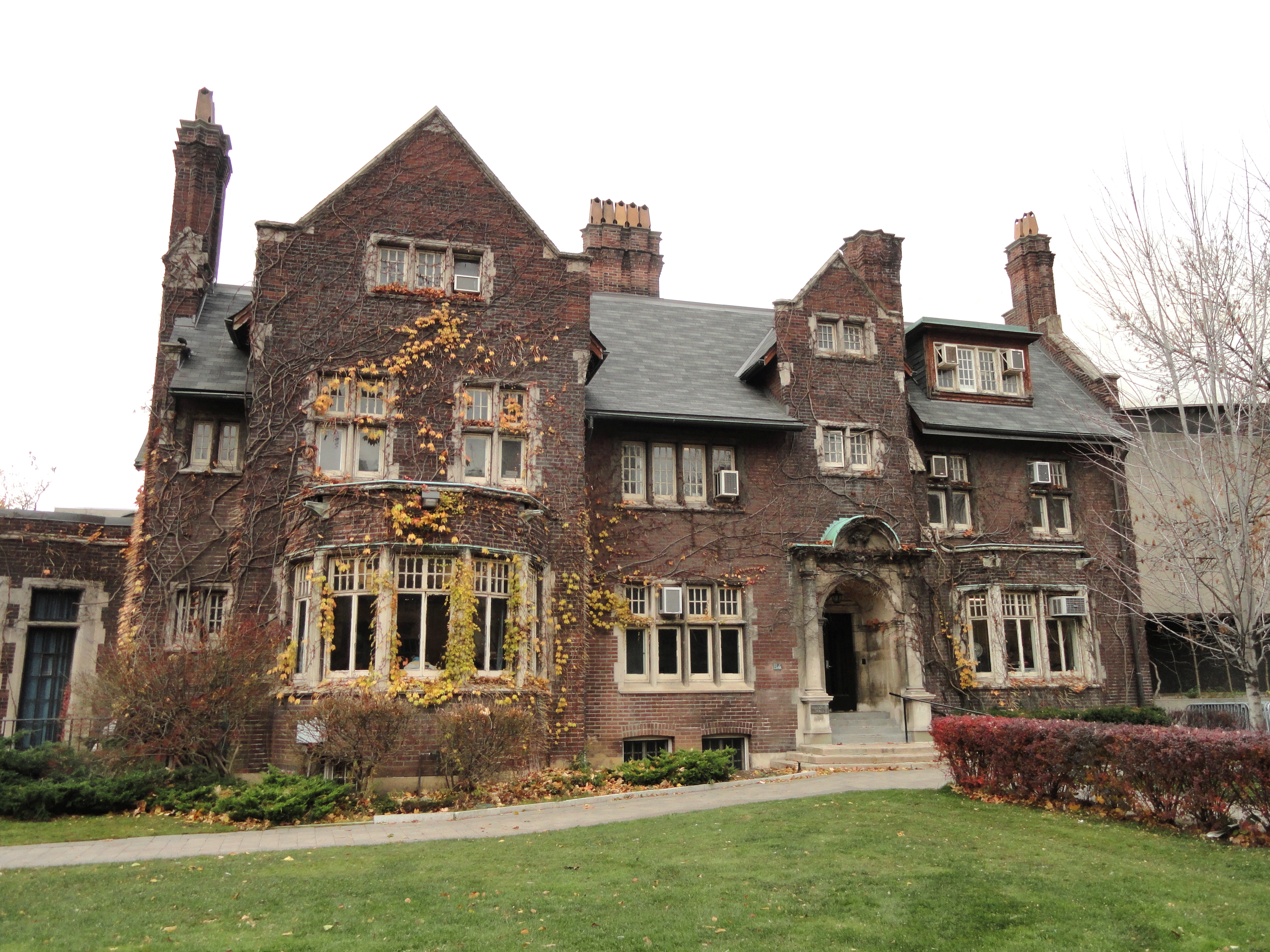 Building in Toronto, Ontario, Canada.